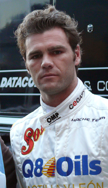 Fonsi Nieto in 2009